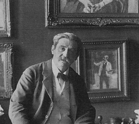 Art historian Julius Elias in his studio, Matthaikirchstr. 4, Berlin (with a self portrait of Max Liebermann at the wall)